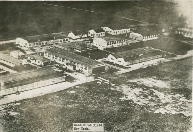 Army aviation airfield in use during World War I. Near Mineola, Long Island, New York.